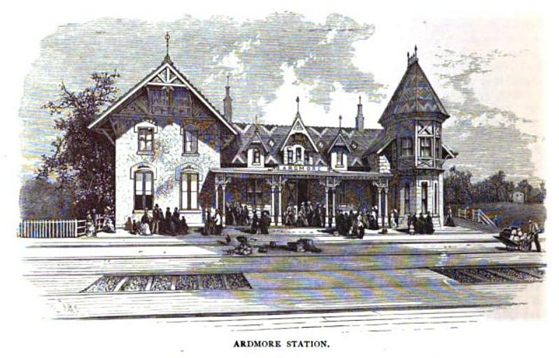 Drawing of Ardmore PA station on the Pennsylvania Railroad main line circa 1875